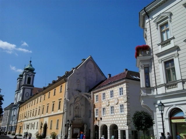 Fő (Main) street, Székesfehérvár, Hungary